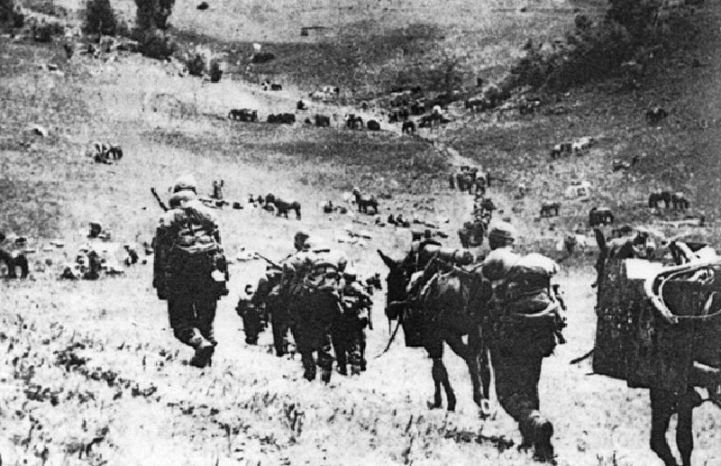 Soldiers of Kampfgruppe Gertler (Oberst Rudolf Gertler) on the march, advancing across the mountain Kuk, near village Zlatni Bor (May 1943)